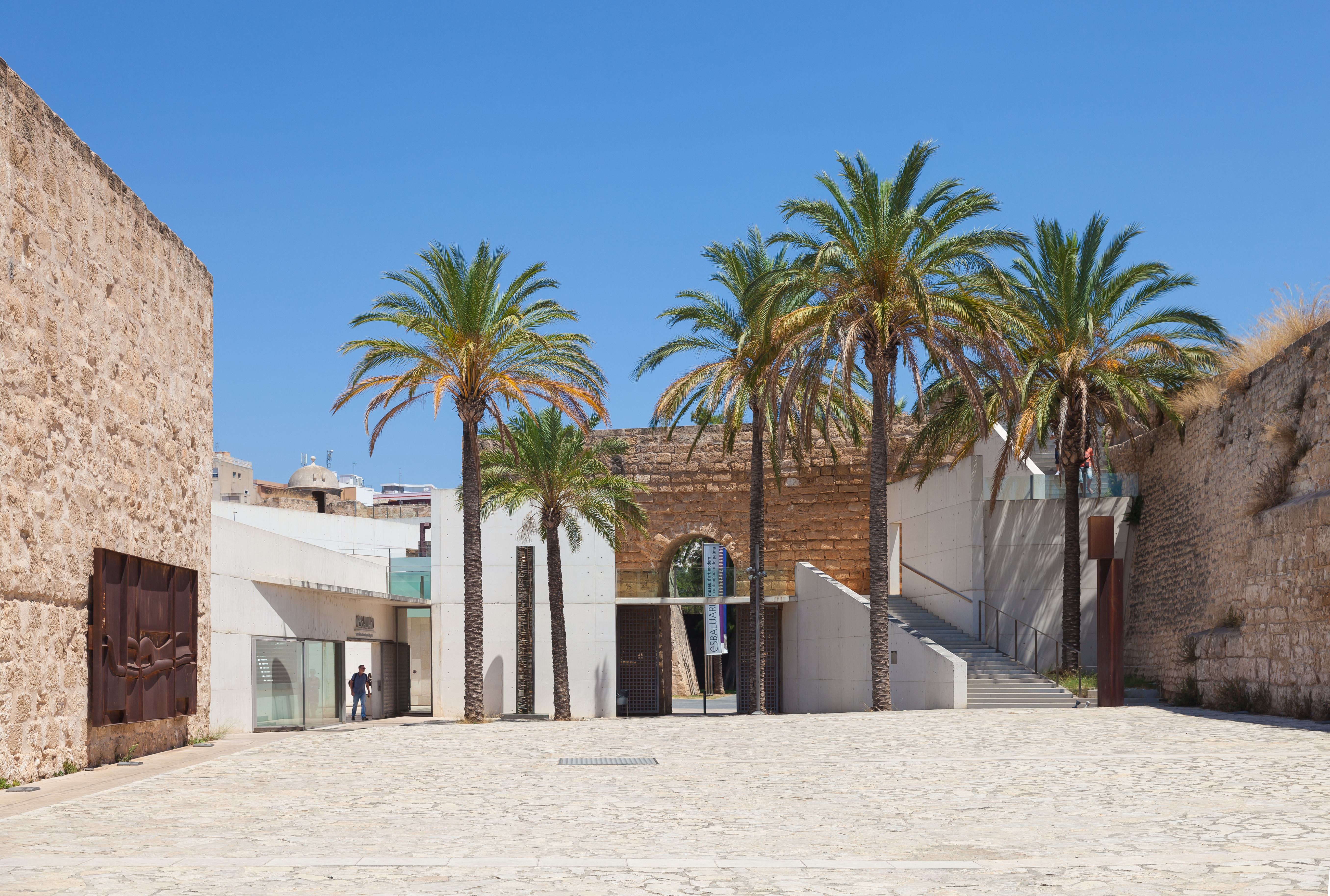 Es Baluard in Palma, Spain